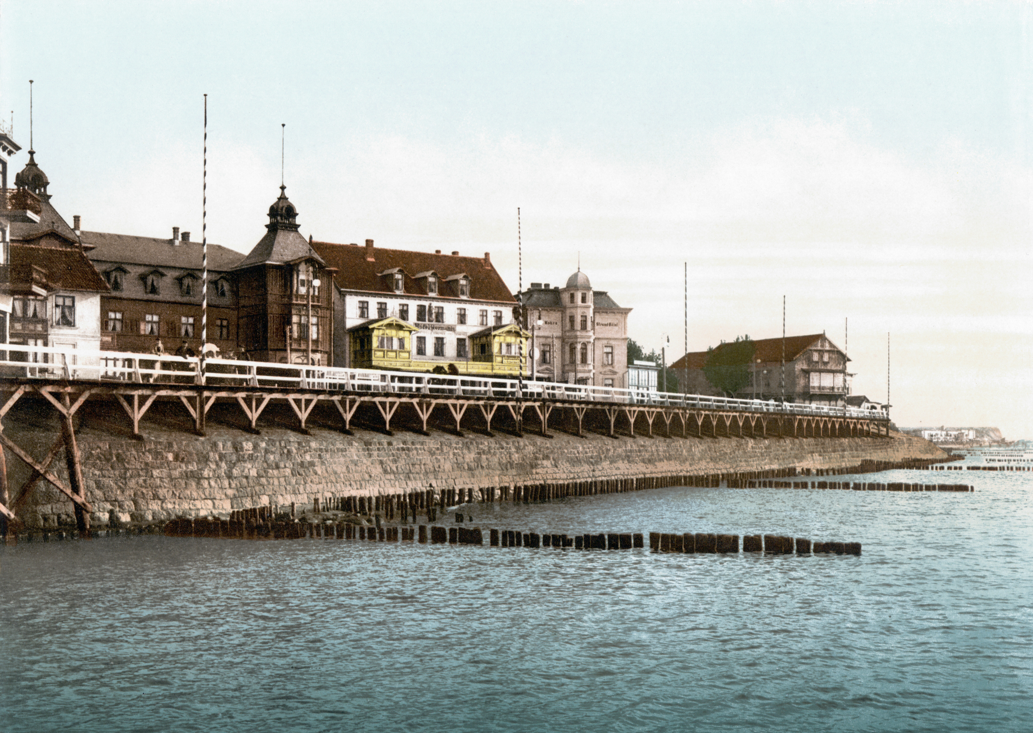 Zelenogradsk (Cranz) ~ 1900